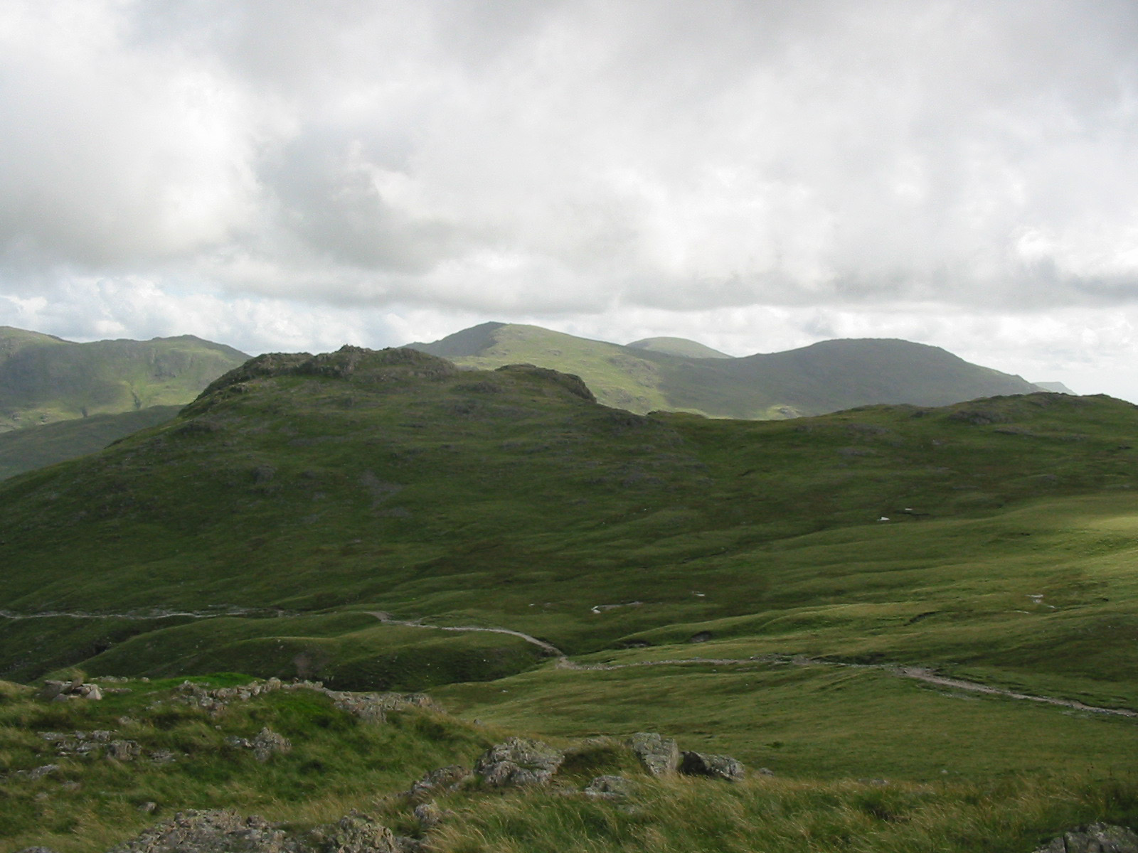 Cold Pike from Great Knott. Behind, from left to right, are the Black Sails subsidiary of Wetherlam, the pass of Swirl Hause behind Cold Pike, Swirl How and Great Carrs, the Old Man of Coniston behind the pass of Fairfield, and finally Grey Friar. White Pike can just be seen peeking out from Grey Friar, above Cold Pike West Top. Photograph by Stephen Dawson, 15 August 2002.